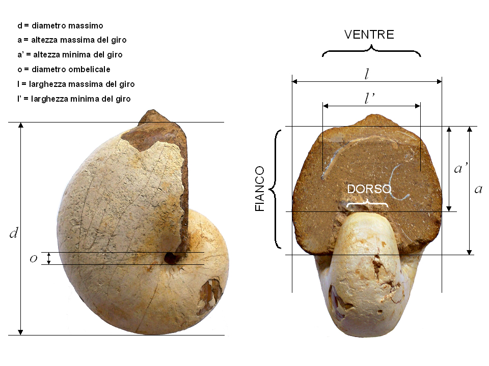 morphology and morphometry of a fossil nautiloid shell (Late Jurassic of Madagascar). text in italian